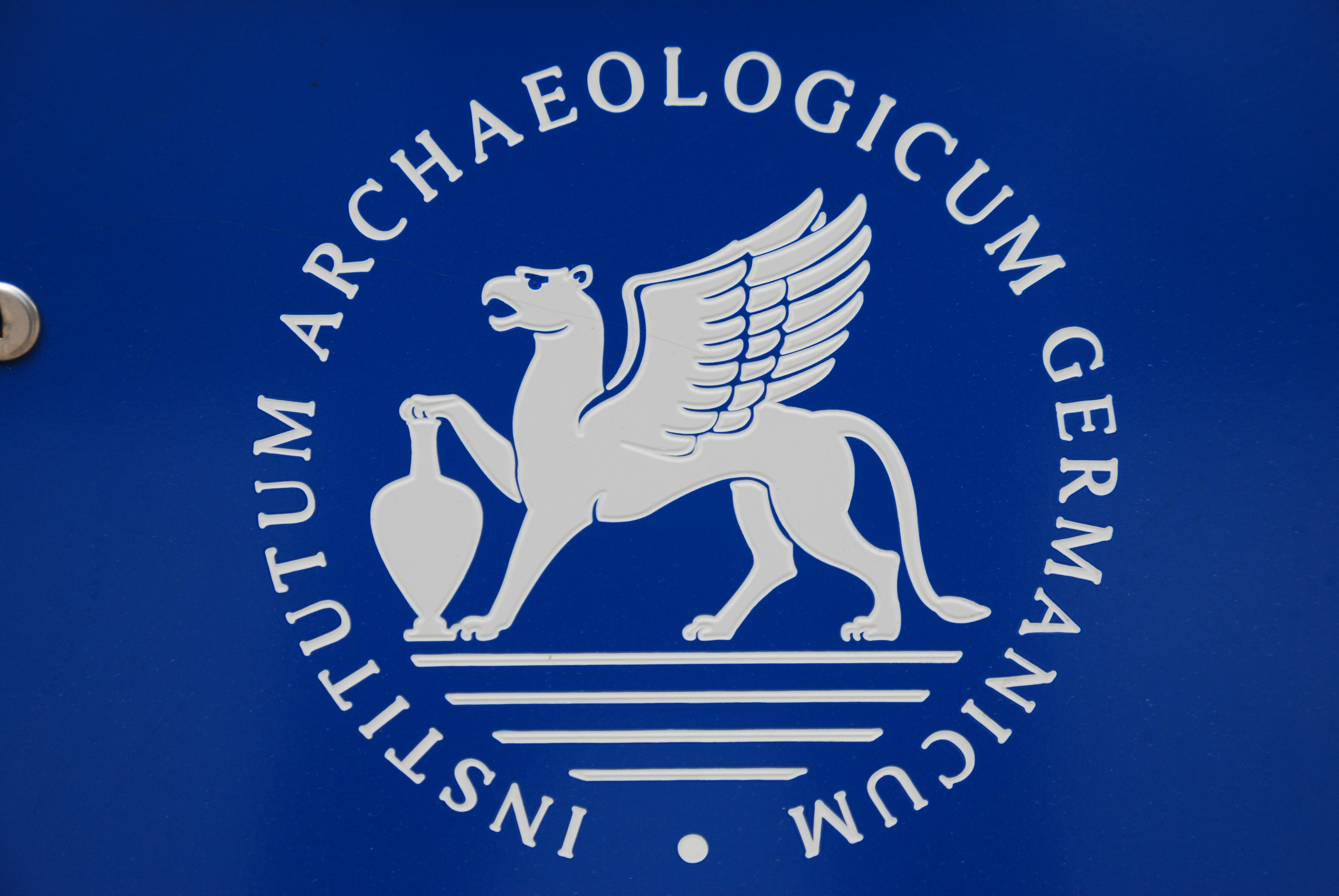 Lange Nacht der Wissenschaften DAI Berlin June 2012